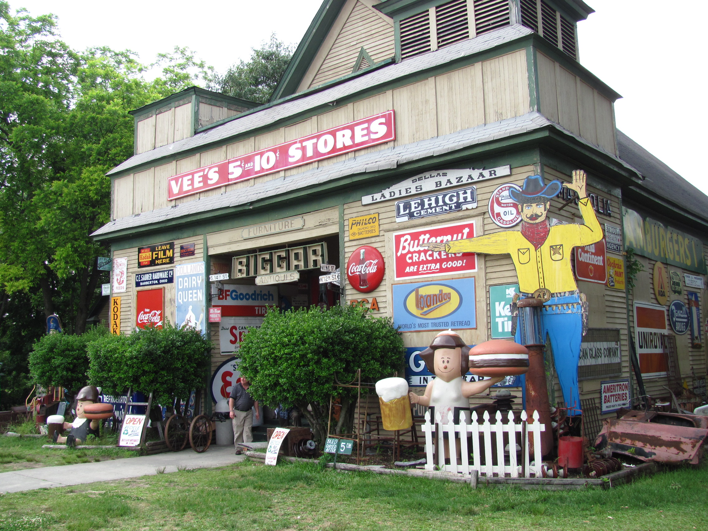 Biggar Antiques, Chamblee Georgia